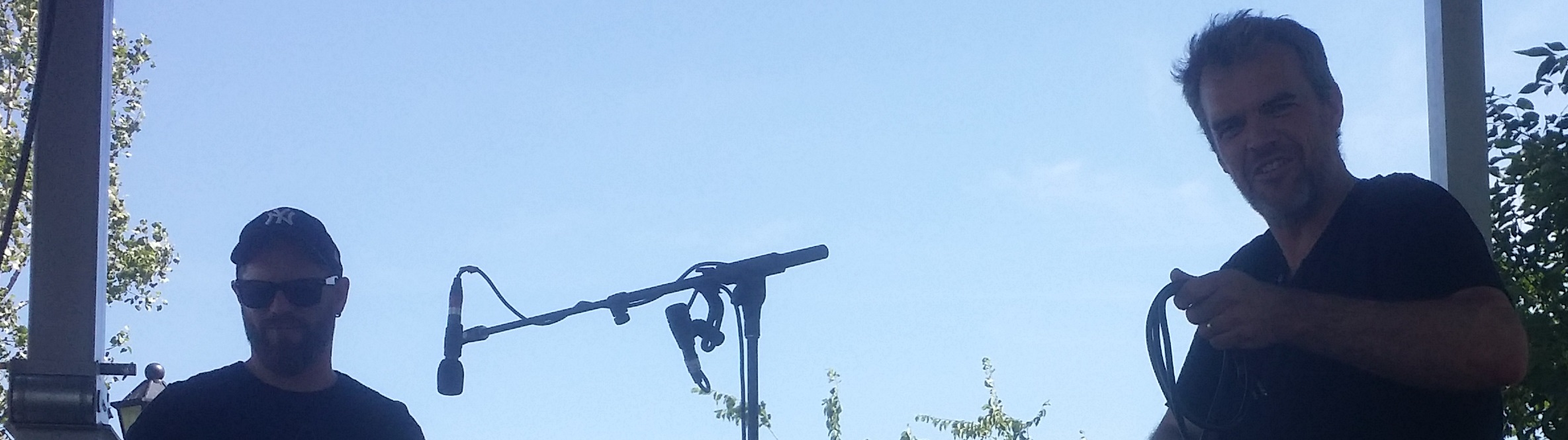 La Jarry photographed in St. Eustache, Québec , Canada.